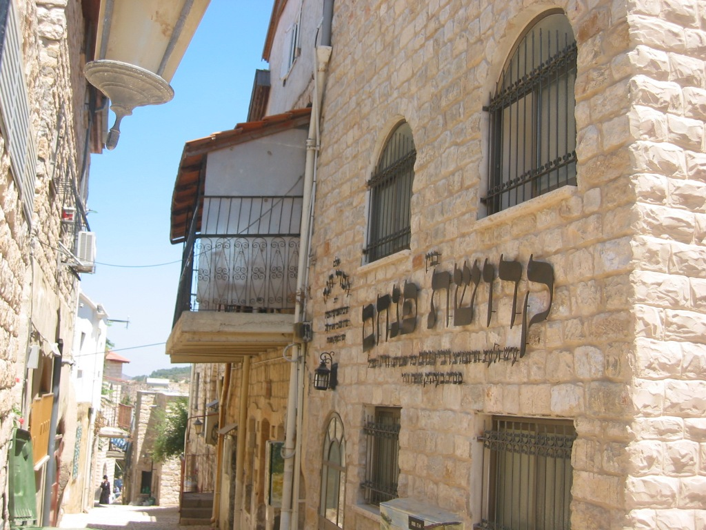 In the Old City of Safed you can feel the holy atmosphere